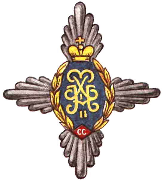 Badge of Tiraspolsky 131-st Regiment